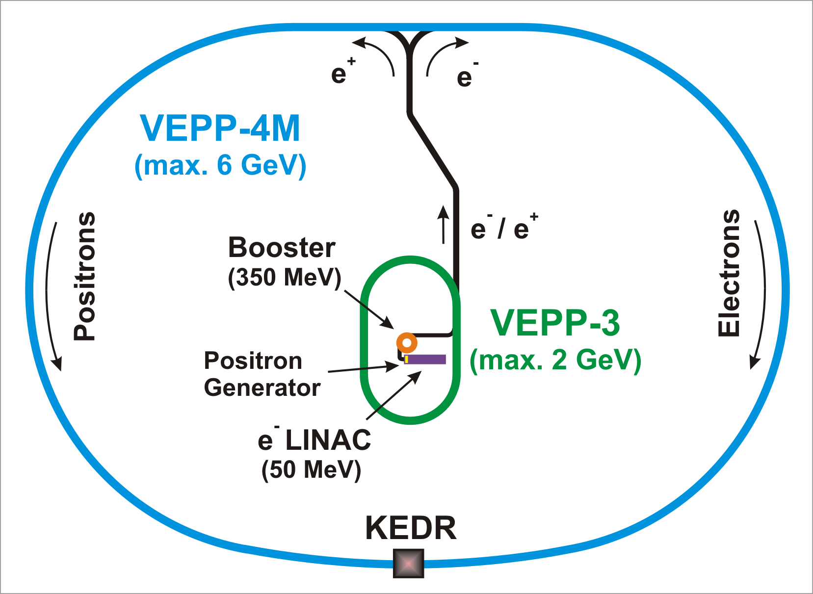 Schematic layout of the VEPP-4 particle accelerator complex at BINP in Novosibirsk (Russia). According to the VEPP-4M layout ([1], [2]) by Budker Institute of Nuclear Physics.